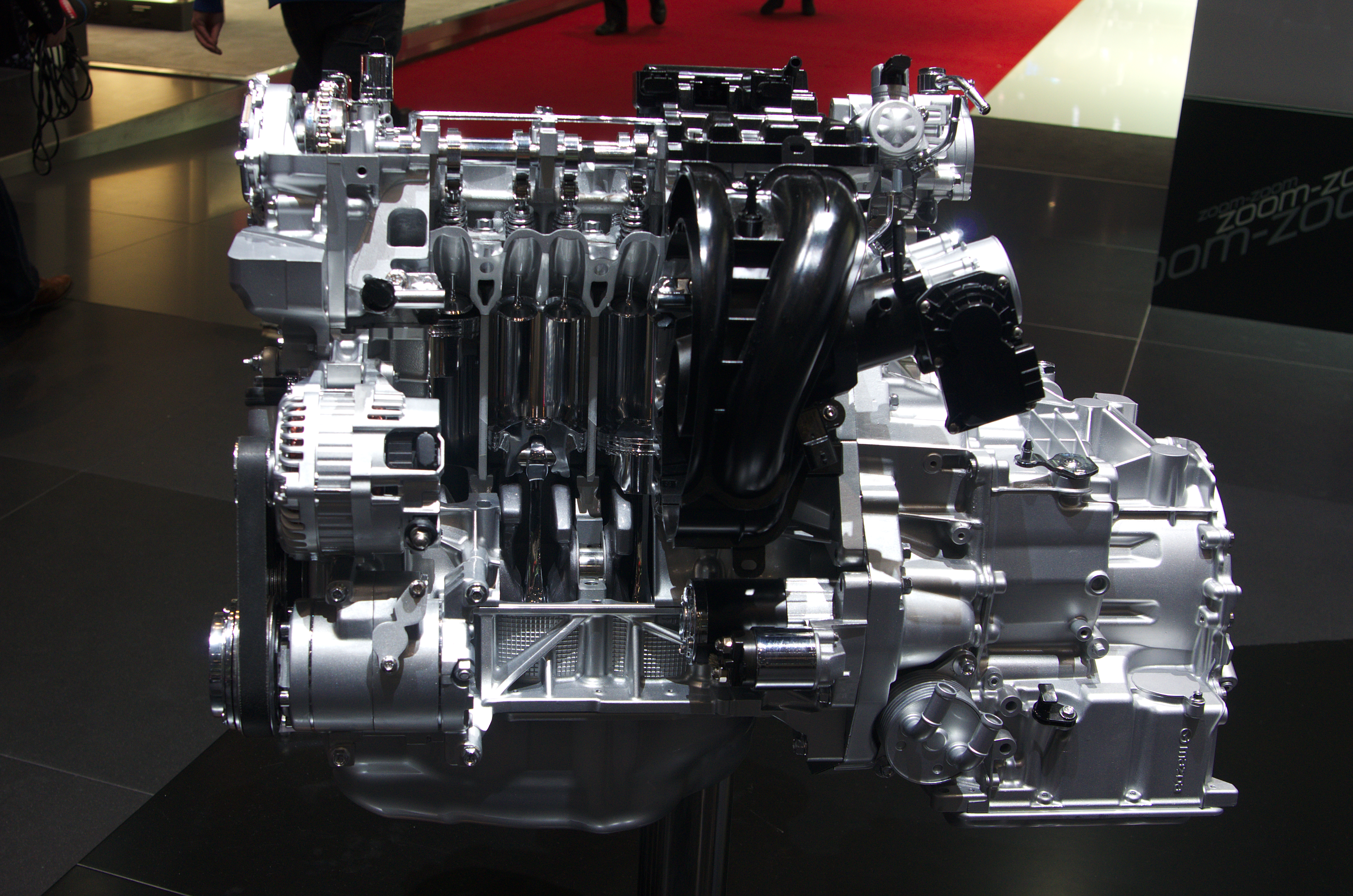 Geneva MotorShow 2013 - Mazda Skyactiv-G2.5L engine